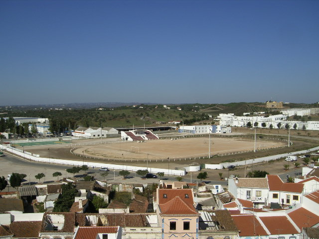 Stadium in Castro Marim, Portugal